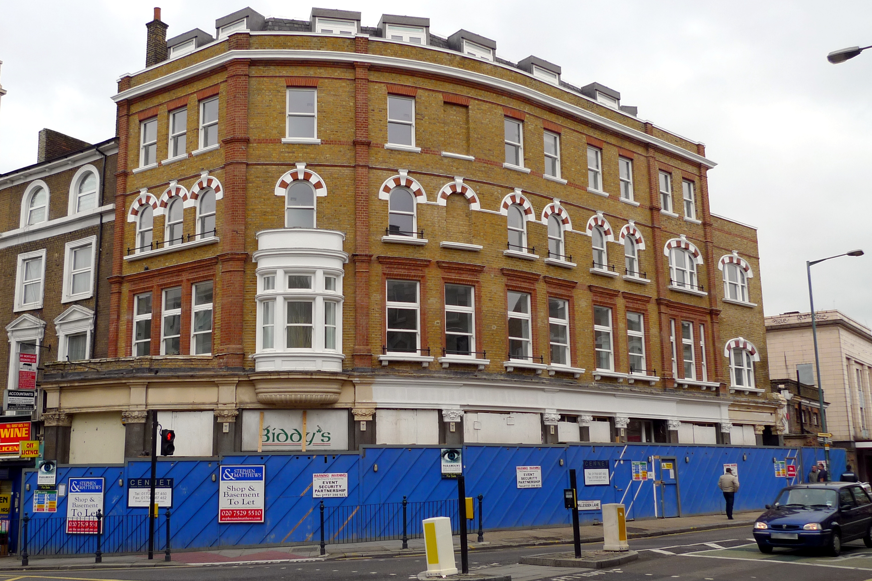 Most recently Irish, before that Australian for a while. Now it's a Ladbrokes. Address: 205 Kilburn High Road. Former Name(s): Biddy Mulligan's; Southern K; The Victoria Tavern. Links: Fancyapint Beer in the Evening Dead Pubs (history)